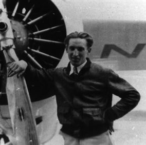 Feliksas Vaitkus before Lituanica II transatlantic flight.